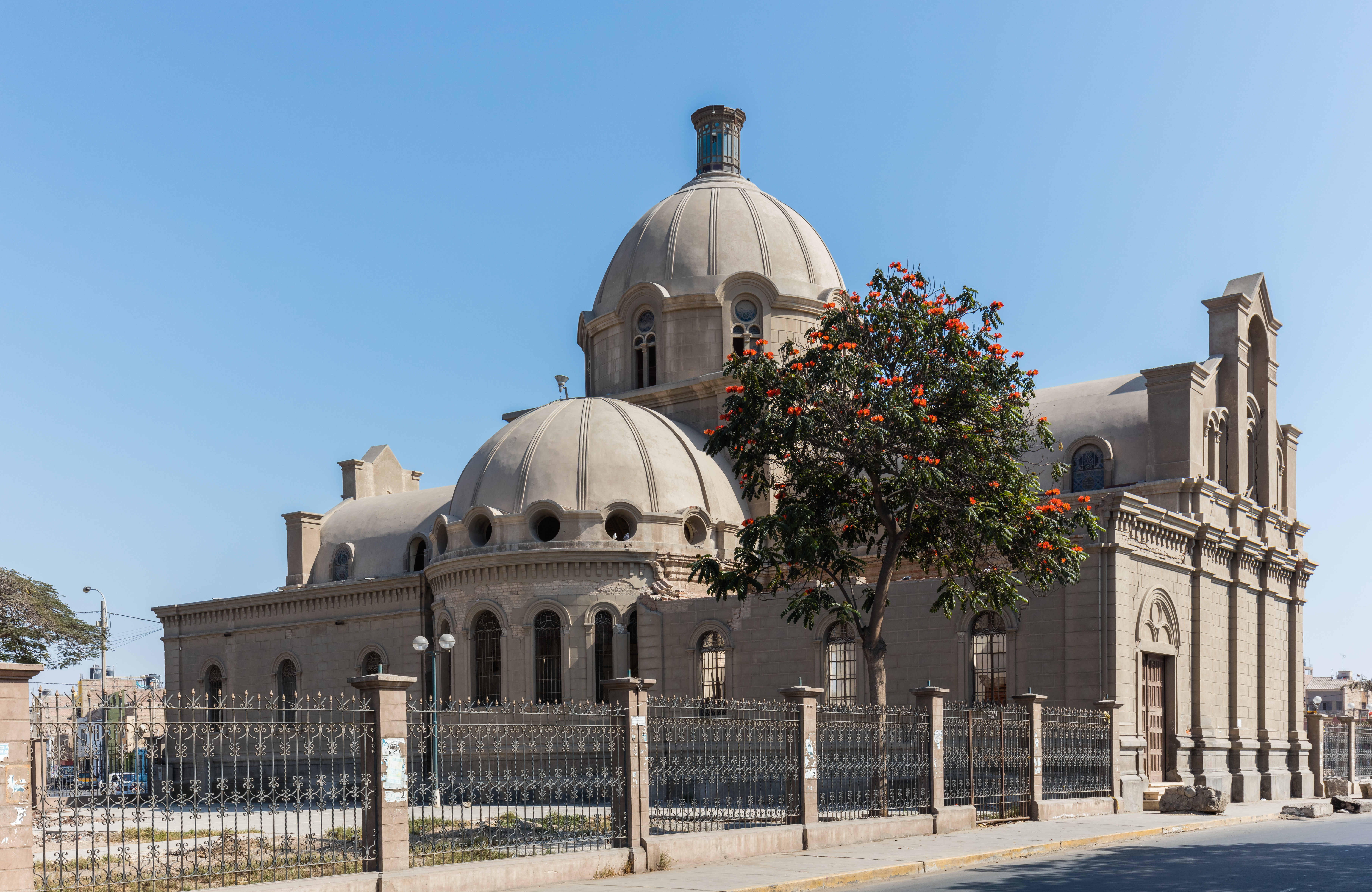 Temple of the Sir of Luren, Ica, Peru